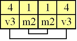 Intervals in a mirror chord (example) by: Ziga 19:02, 13 February 2007 (UTC)